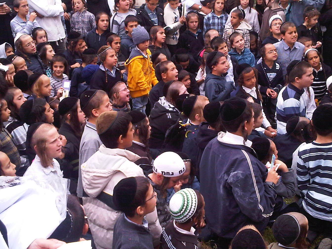 Jews in Ouman